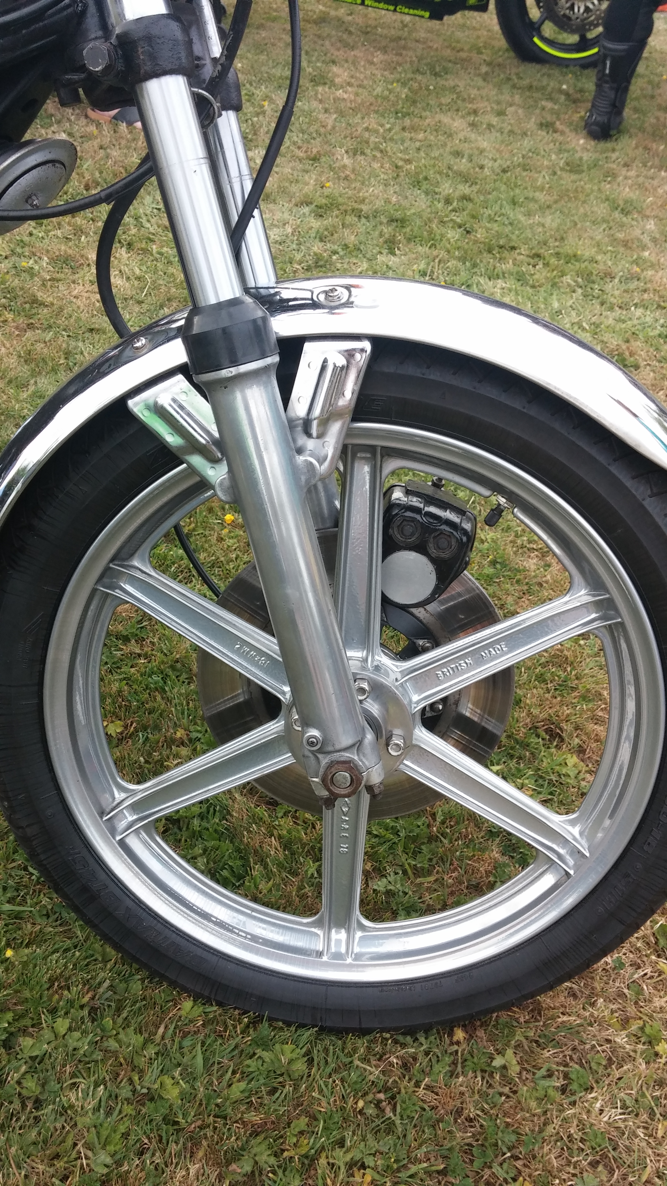 Cast alloy front wheel from a Kawasaki KH400